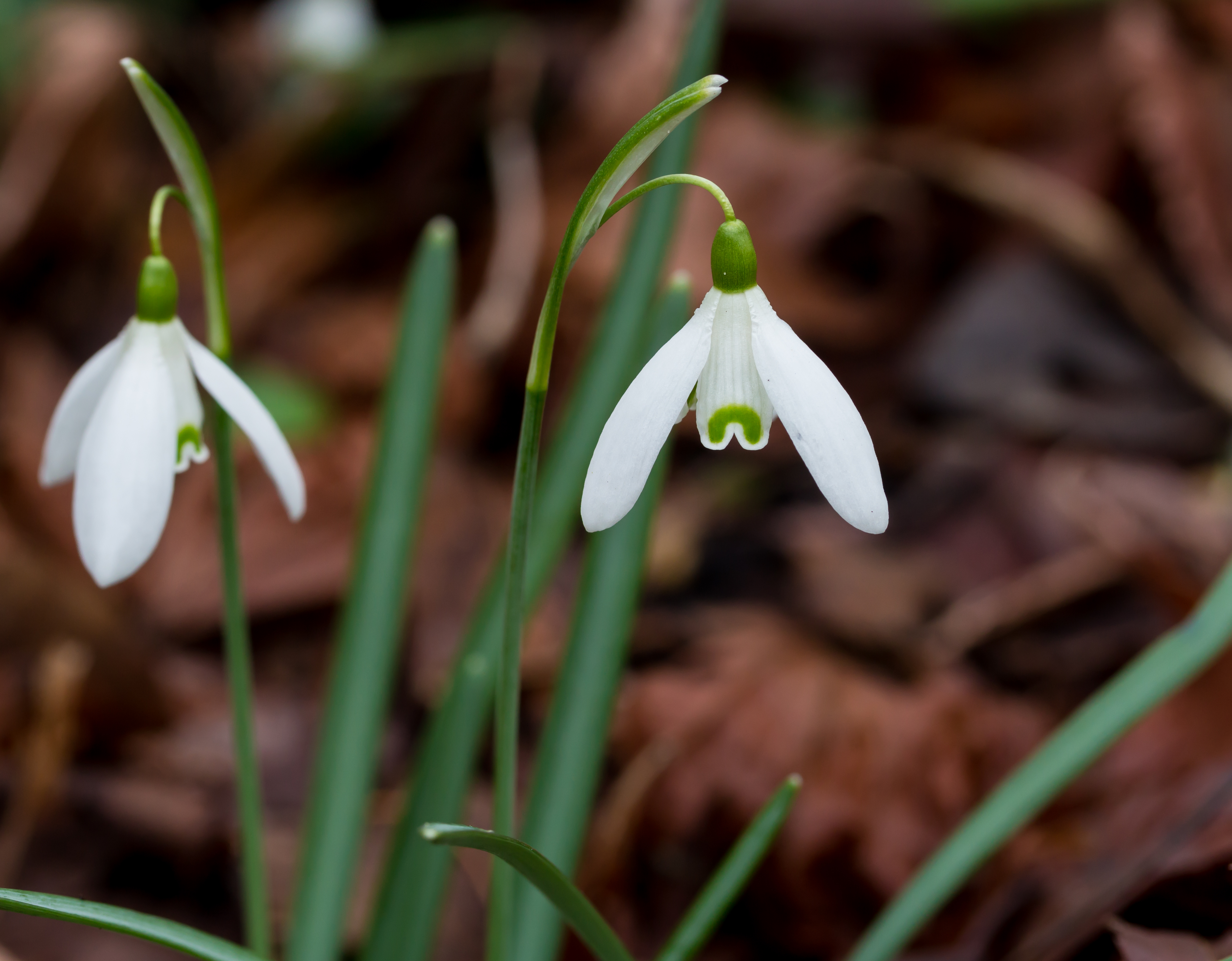 Snowdrop (Galanthus nivalis). Spring Bode. Location Natuurterrein The Famberhorst.